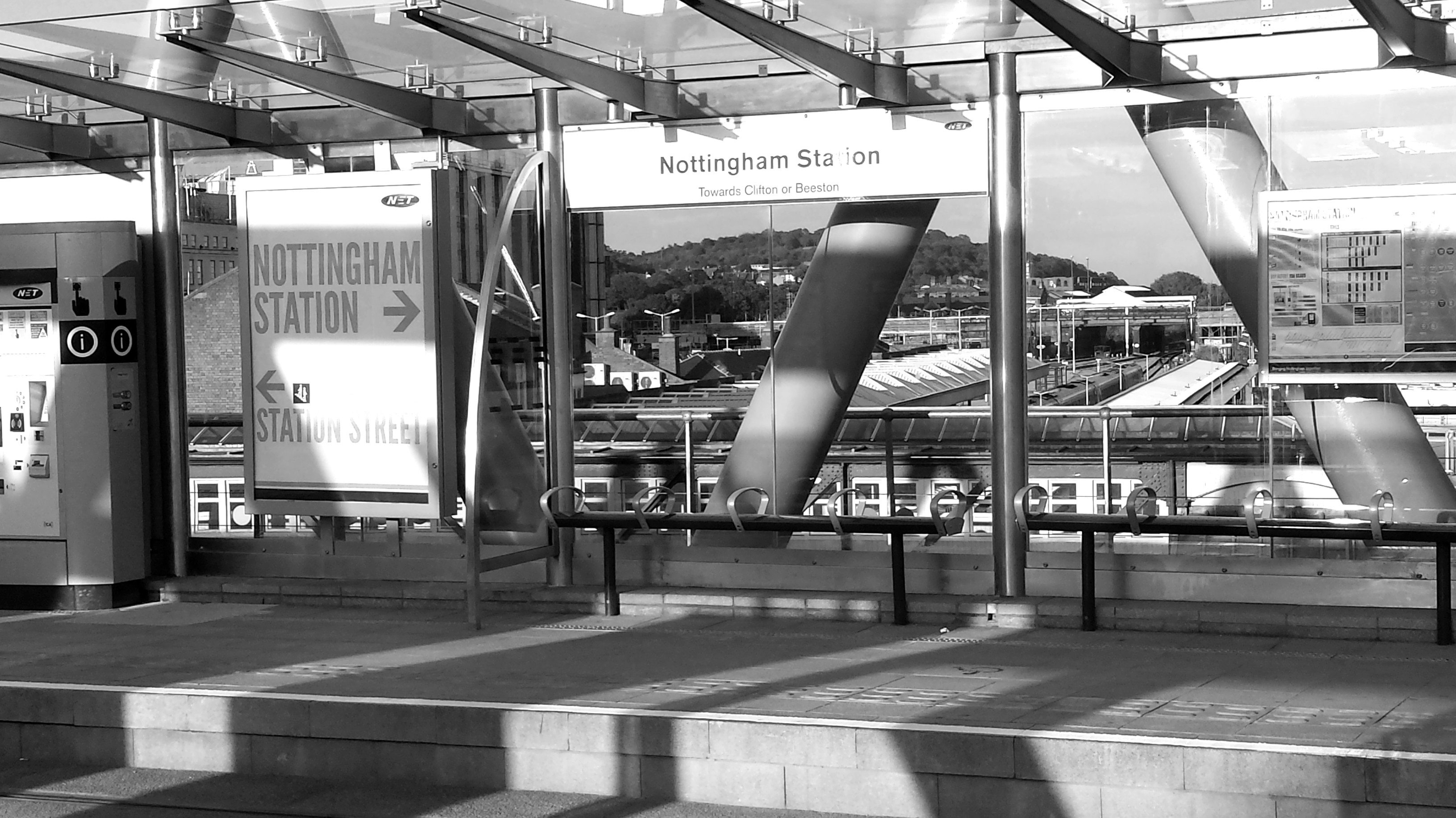 Nottingham Station tram stop, showing tram platform and railway platforms below.